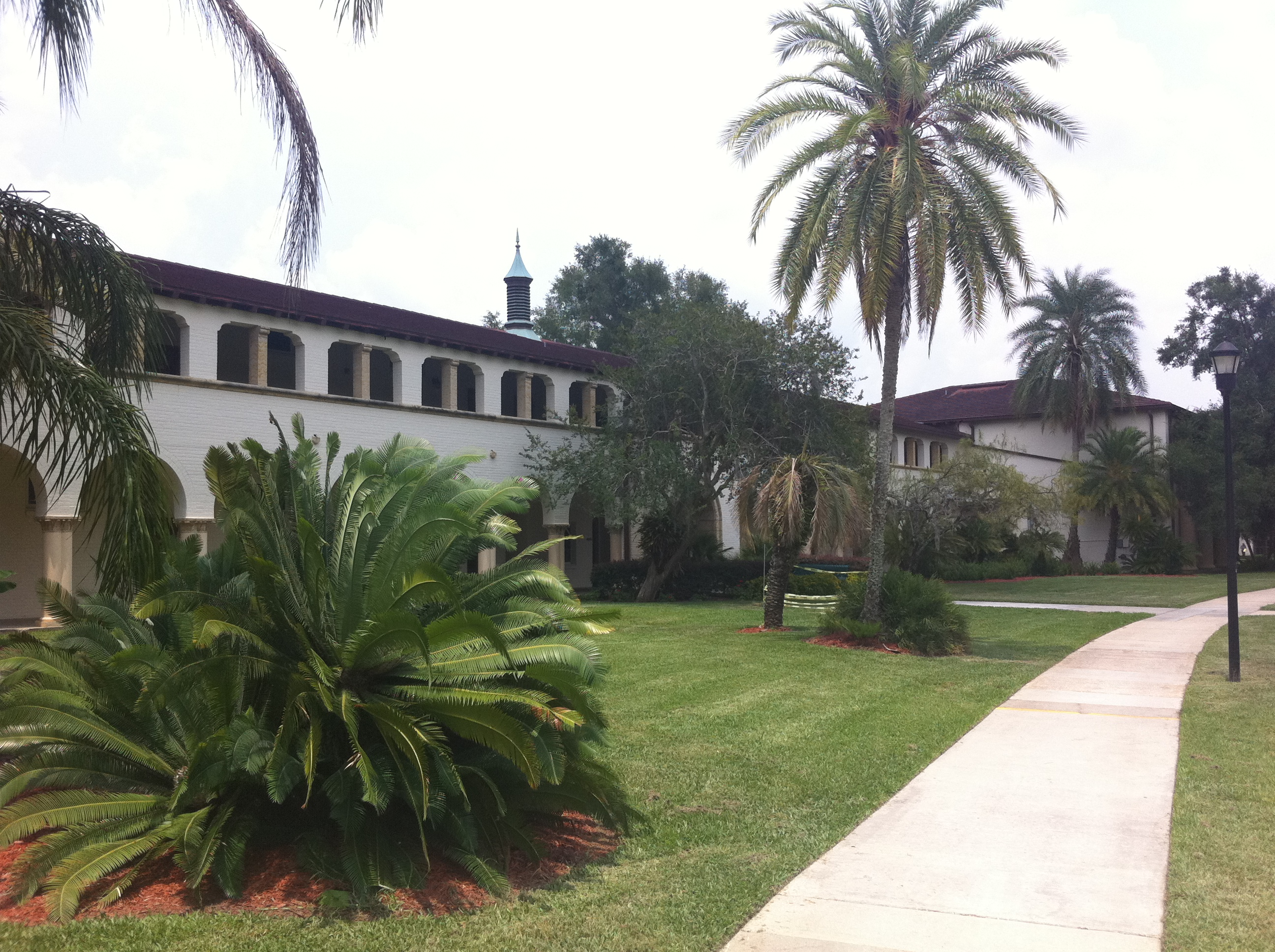 Saint Leo University's main campus in St. Leo, Florida.